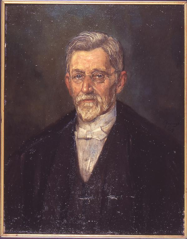 Portrait of D.C Hesseling (1859-1941) by J. van Eysinga. Collection Leiden University